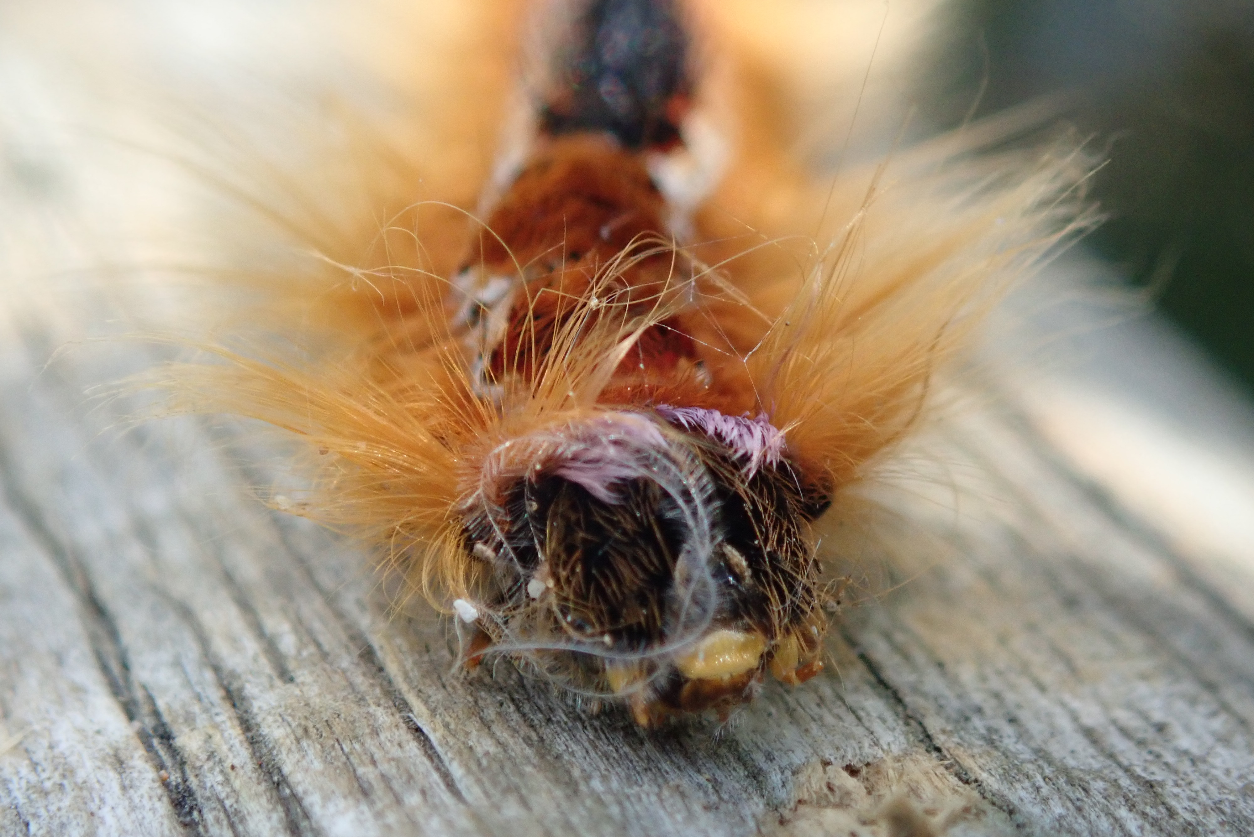 Cape lappet found at Boulders Beach, South Africa